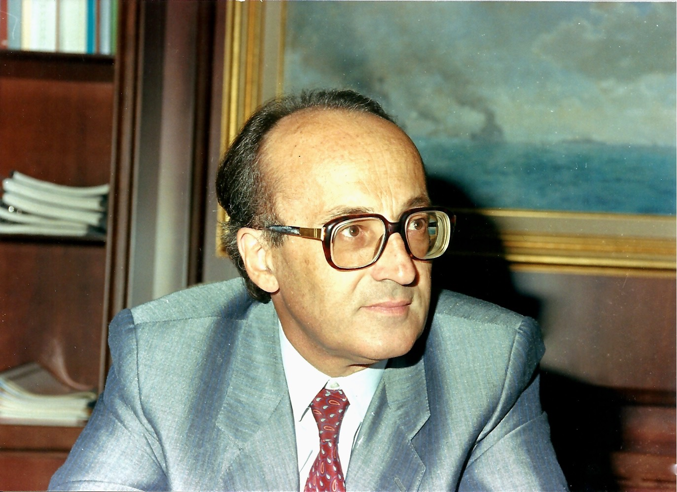 Καθηγητής Απόστολος Σ. Γεωργιάδης